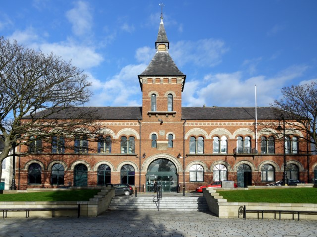 Hartlepool Borough Hall. There is another photograph here 614447 The Borough Hall and Market Buildings were opened in 1866 and housed a covered market and the Police Station. The building was designed by C J Adam of Stockton in Italianate style. The central feature is the turreted tower, decorated with a medallion bearing the Borough Arms. It was re-opened after an £800,000 refurbishment. As the largest public building in Hartlepool, it provides a venue for various entertainment as diverse as The Music and Beer Festival, BBC Question Time, the annual Horticultural Show, North East Model Scale Show and the Hartlepool Chess Congress. Morrissey, The Chippendales and Billy Connolly have also appeared here. Some of the former police cells are now the toilets for people using the Constable's bar. The doors leading to the toilets are the original ones from the prison cells and still feature the original viewing hatches and bars on the inside windows. Upstairs, the old magistrates' court still remains now known as the Croft Room The Headland area of Hartlepool is thought to be one of the most haunted areas in the country and the hall itself is considered as one of the spooky venues